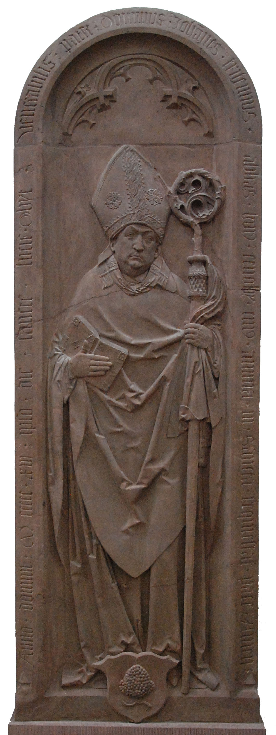 Tomb relief of Johannes Trithemius. Originally in the Schottenkirche St. Jakob, it was moved to the Neumünster church.